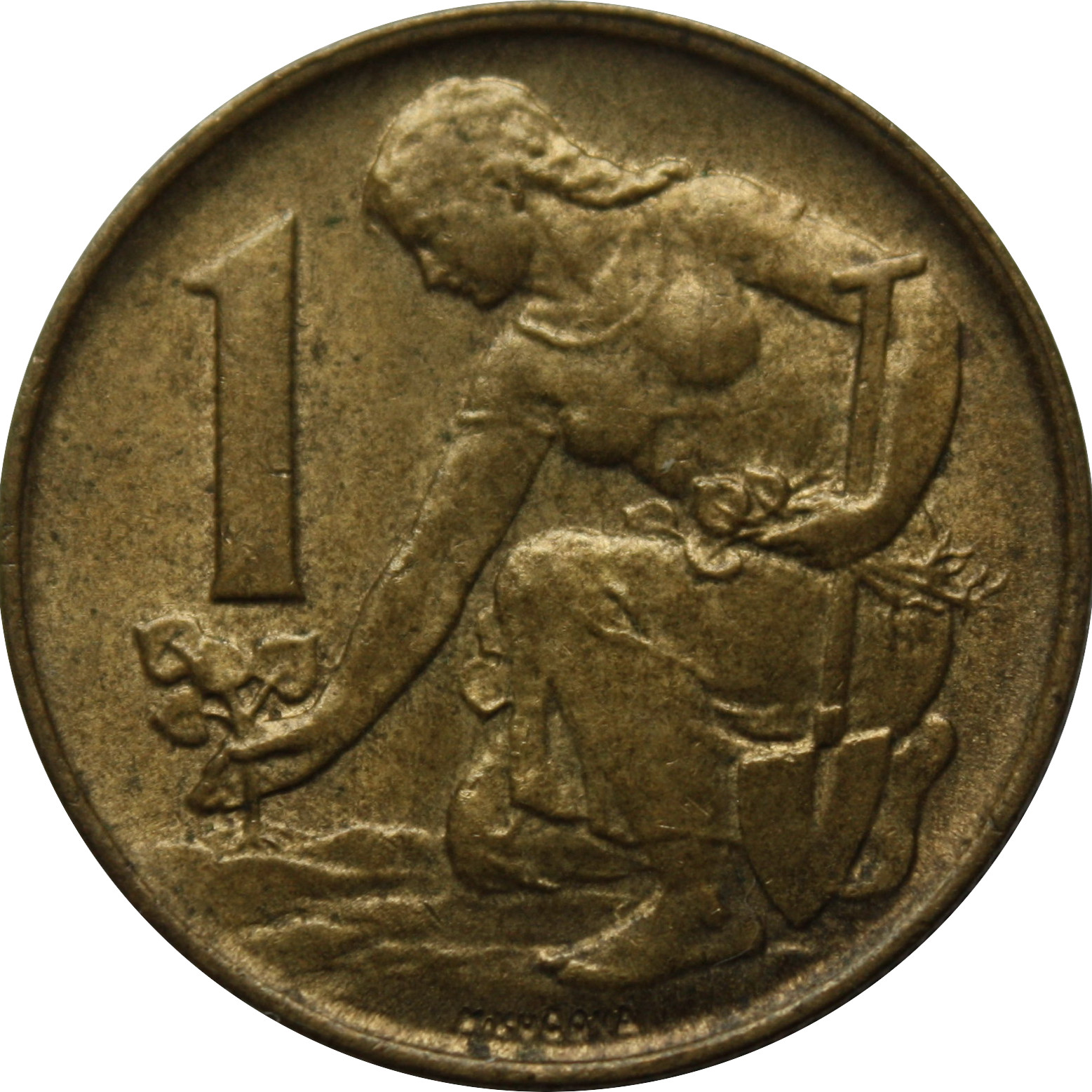 1 Czech crown (Kčs) - reverse